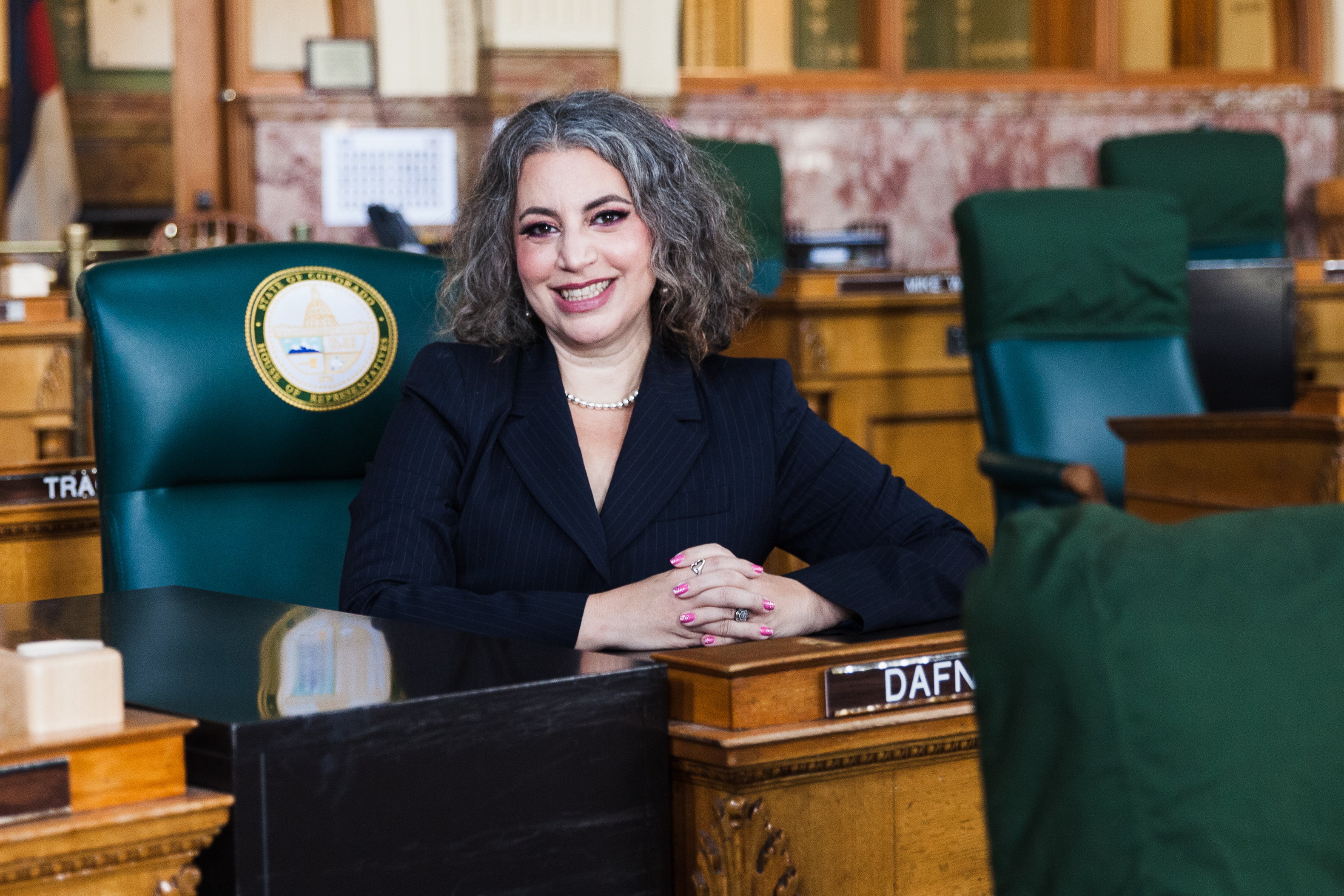 Representative Michaelson Jenet sitting at her desk on the floor of the Colorado House of Representatives 2019